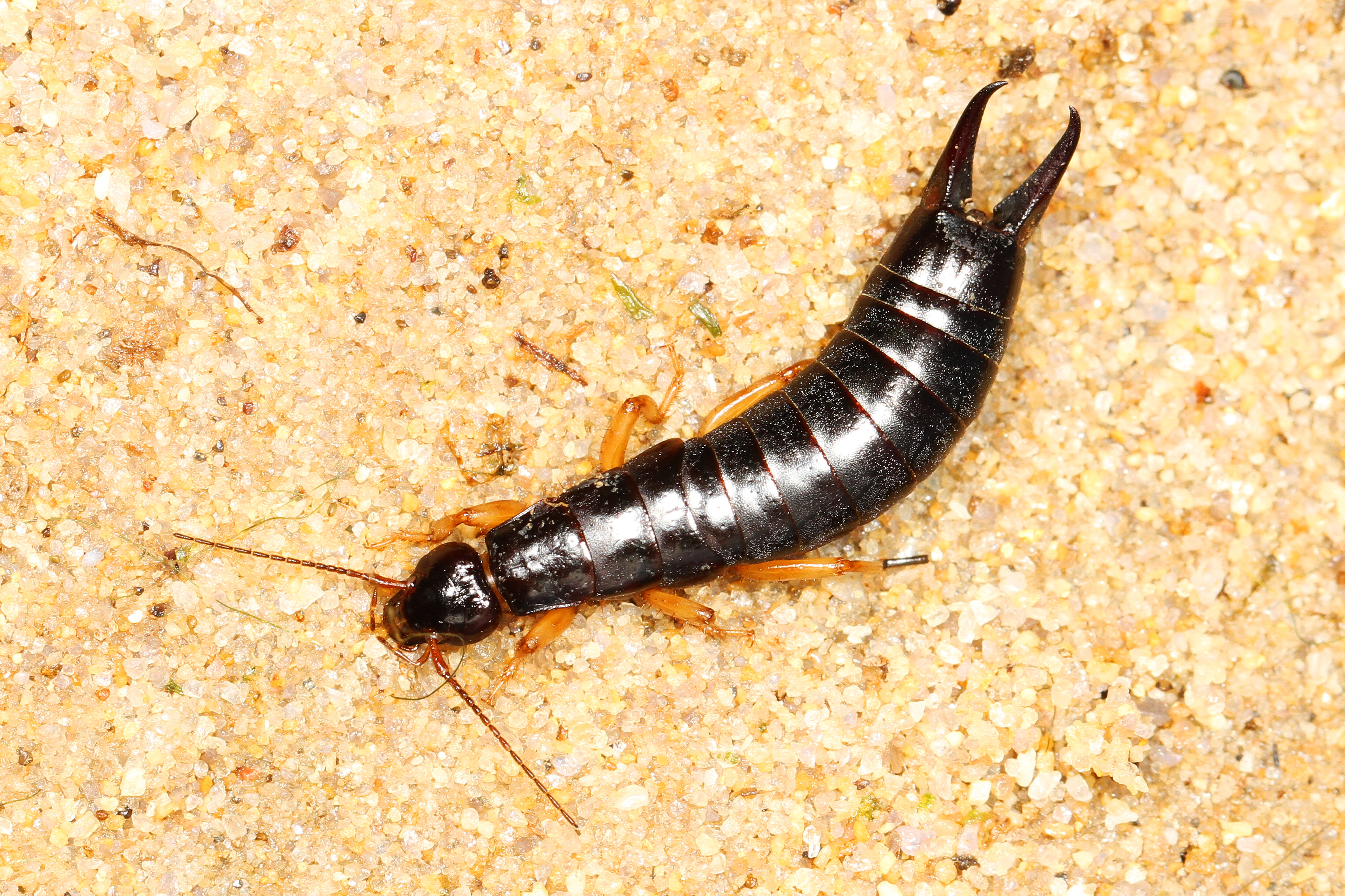 Maritime Earwig - Anisolabis maritima, Leesylvania State Park, Woodbridge, Virginia